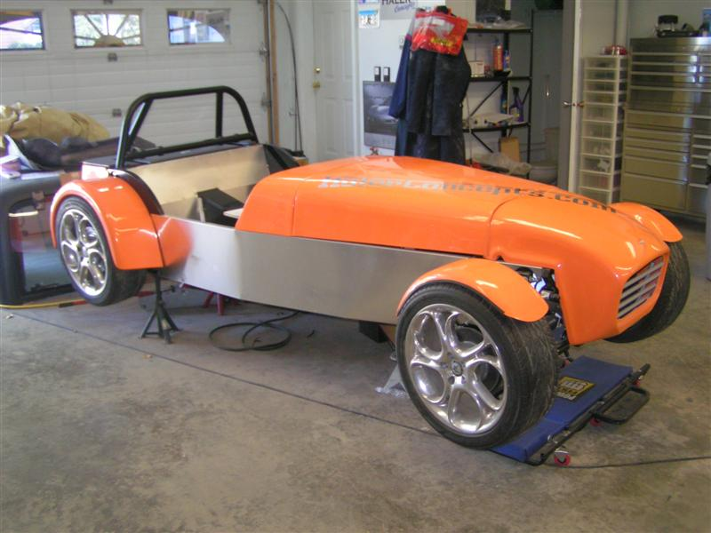 Went to go see this Locost from the local Leugo supplier with a view to ordering some parts. The car isn't nearly as finished as it looks here - all the parts are just kind of laying on each other, the rear diff is held up with wood. The quality is very impressive. The 17" wheels look rather dorky though.